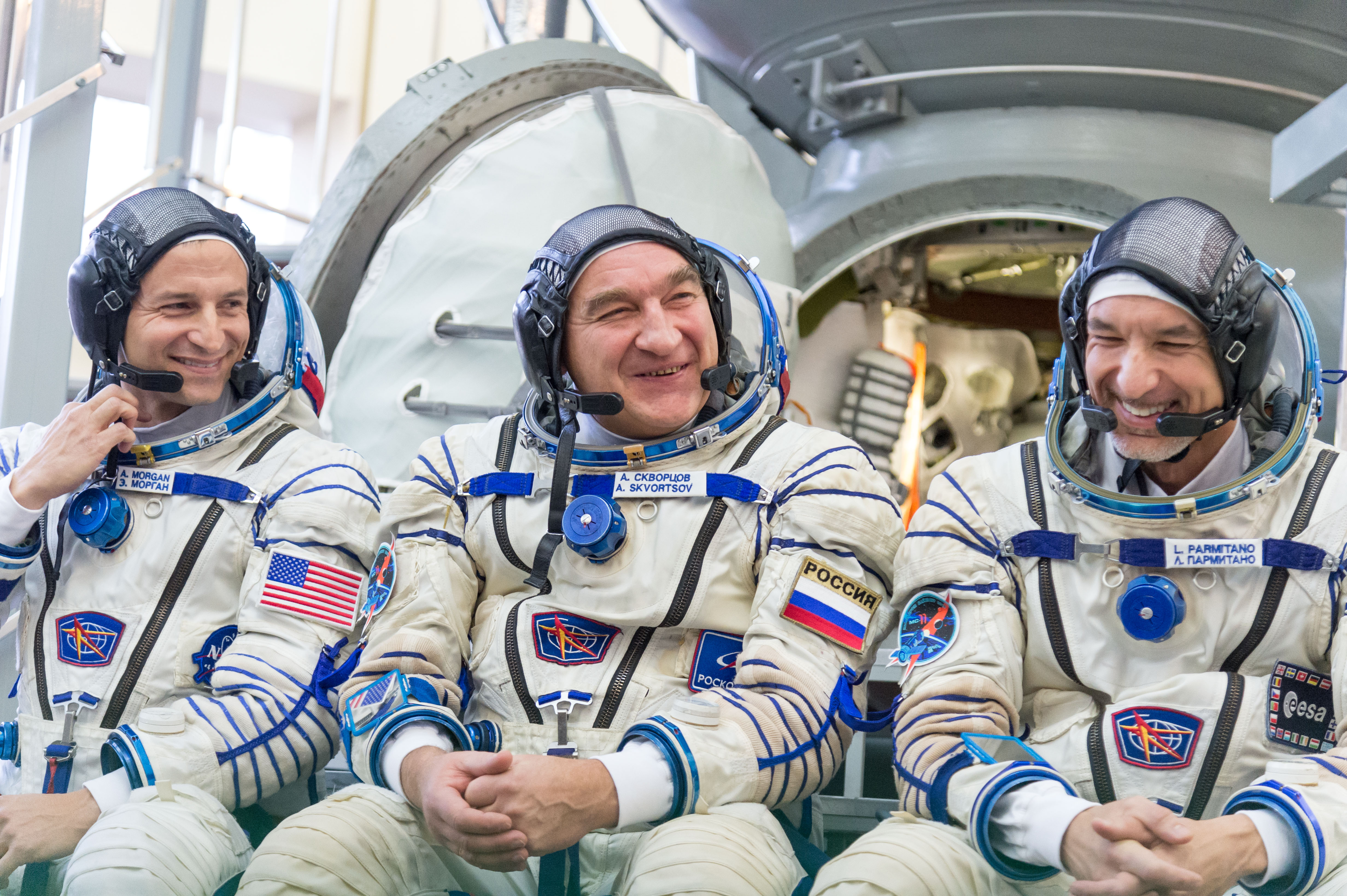 At the Gagarin Cosmonaut Training Center in Star City, Russia, Expedition 58 backup crew members Drew Morgan of NASA (left), Alexander Skvortsov of Roscosmos (center) and Luca Parmitano of the European Space Agency (right) meet with reporters Nov. 13 during qualification exam training. They are the backups to the prime crew, Oleg Kononenko of Roscosmos, Anne McClain of NASA and David Saint-Jacques of the Canadian Space Agency, who will launch Dec. 3 on the Soyuz MS-11 spacecraft from the Baikonur Cosmodrome in Kazakhstan for a six-and-a-half month mission on the International Space Station.